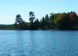 Photo of Indian Lake, in Sugar Camp, Oneida County, Wisconsin, USA. Taken September, 2003